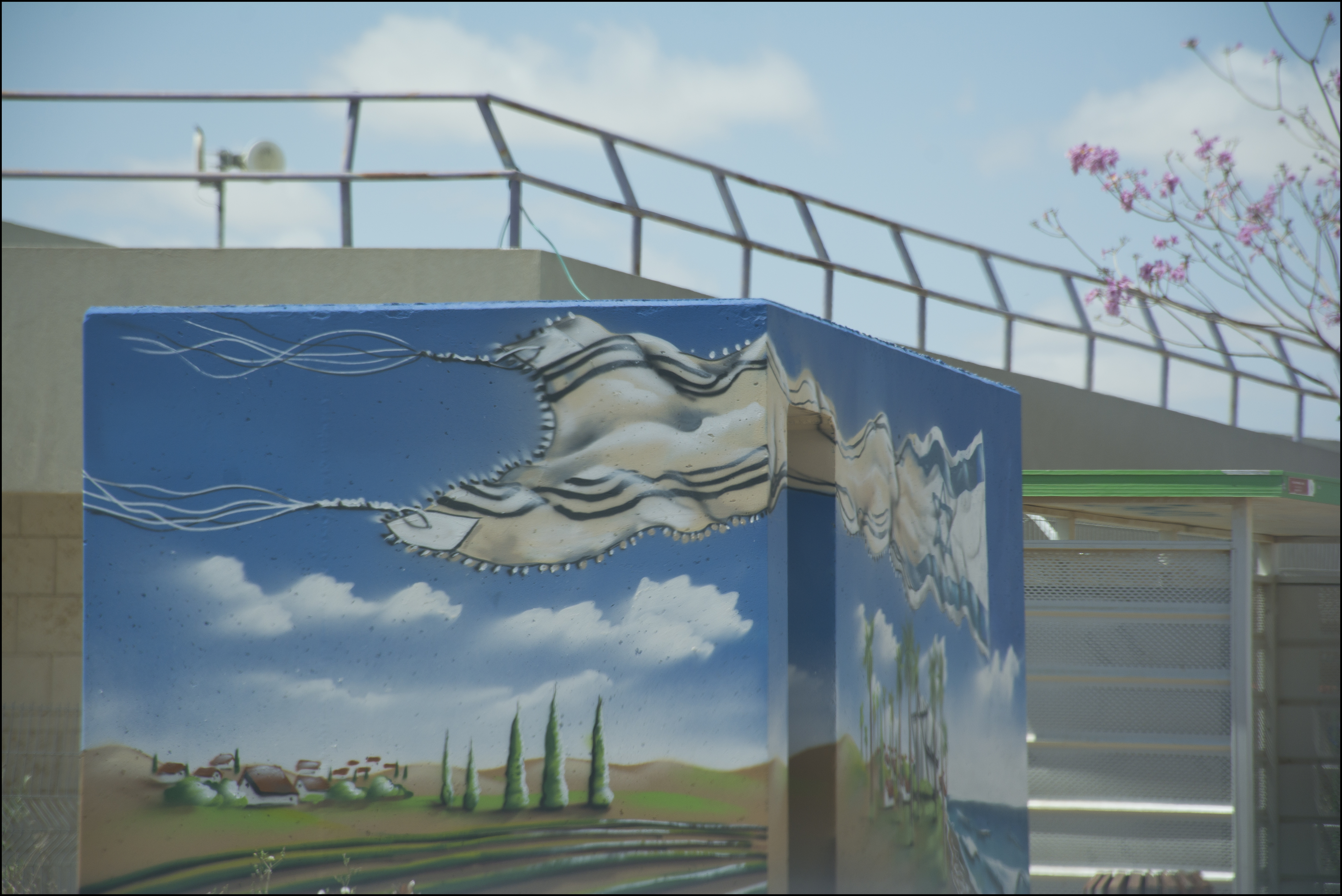 Bney Netzarim, Israel. Bney Netzarim is a religious settlement in west-south Israel (near Kerem Shalom) established by the uprooted settlers of Netzarim (a Jewish settlement that was uprooted during the Disengagement Plan in 2005). Here, in the Israeli desert, they try to rebuilt their lives.